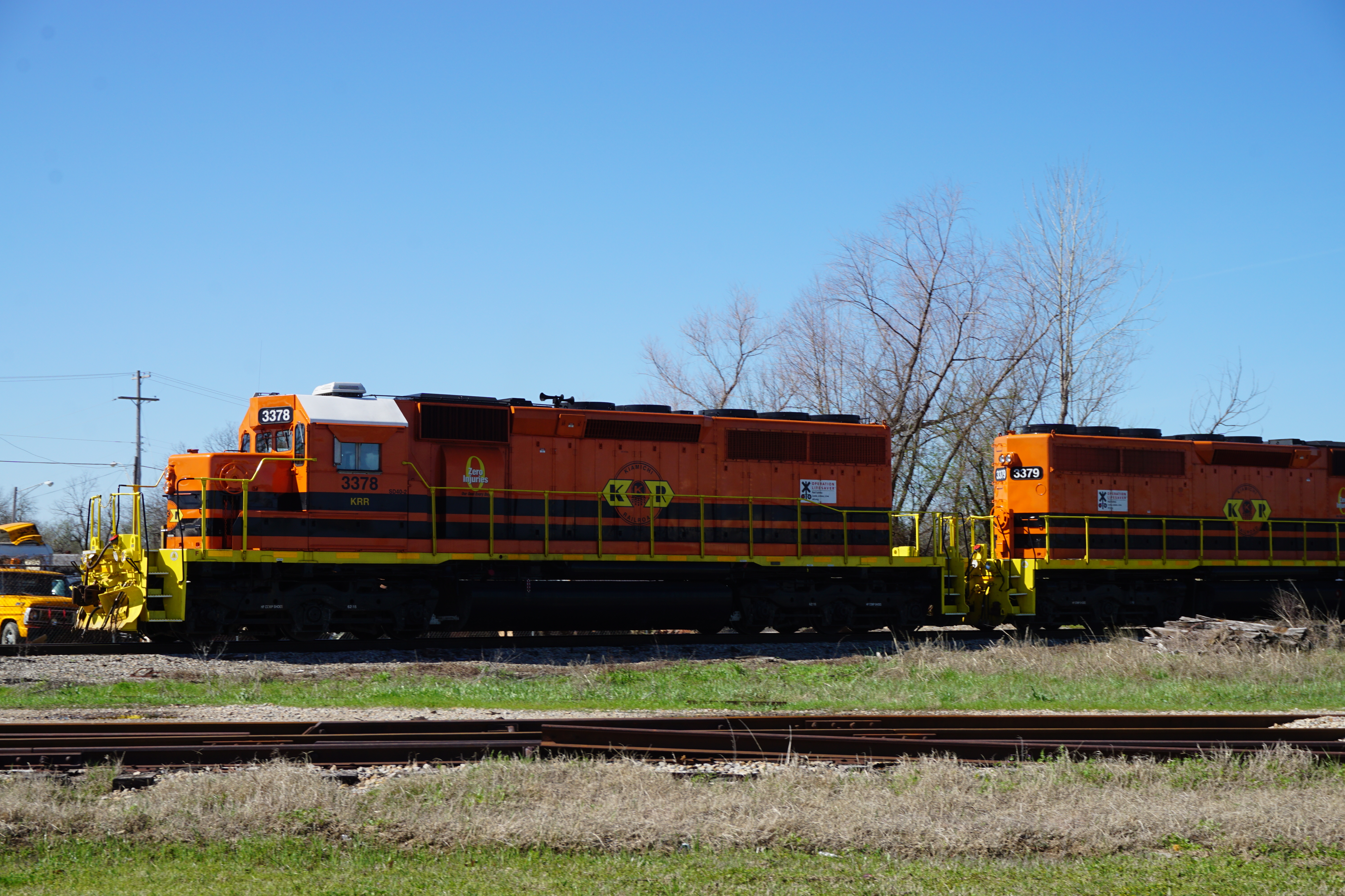 A Kiamichi Railroad freight, led by EMD SD40-2s #3378 and #3379, in Hugo, Oklahoma (United States).